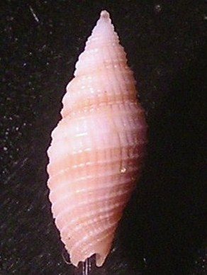 Scabricola padangensis J. Thiele, 1925, a sea snail from the family Mitridae; Philippines Category:Mitridae